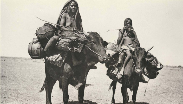 Women travelling in Kordofan — early 20th century southern Sudan. Women of the Messiria tribe branch of the Baggara Arabs traveling by oxen.